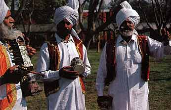 Dhadi Jatha of Des Raj Lachkani performing with Dhadd and Sarangi, the traditional instruments of Punjab.